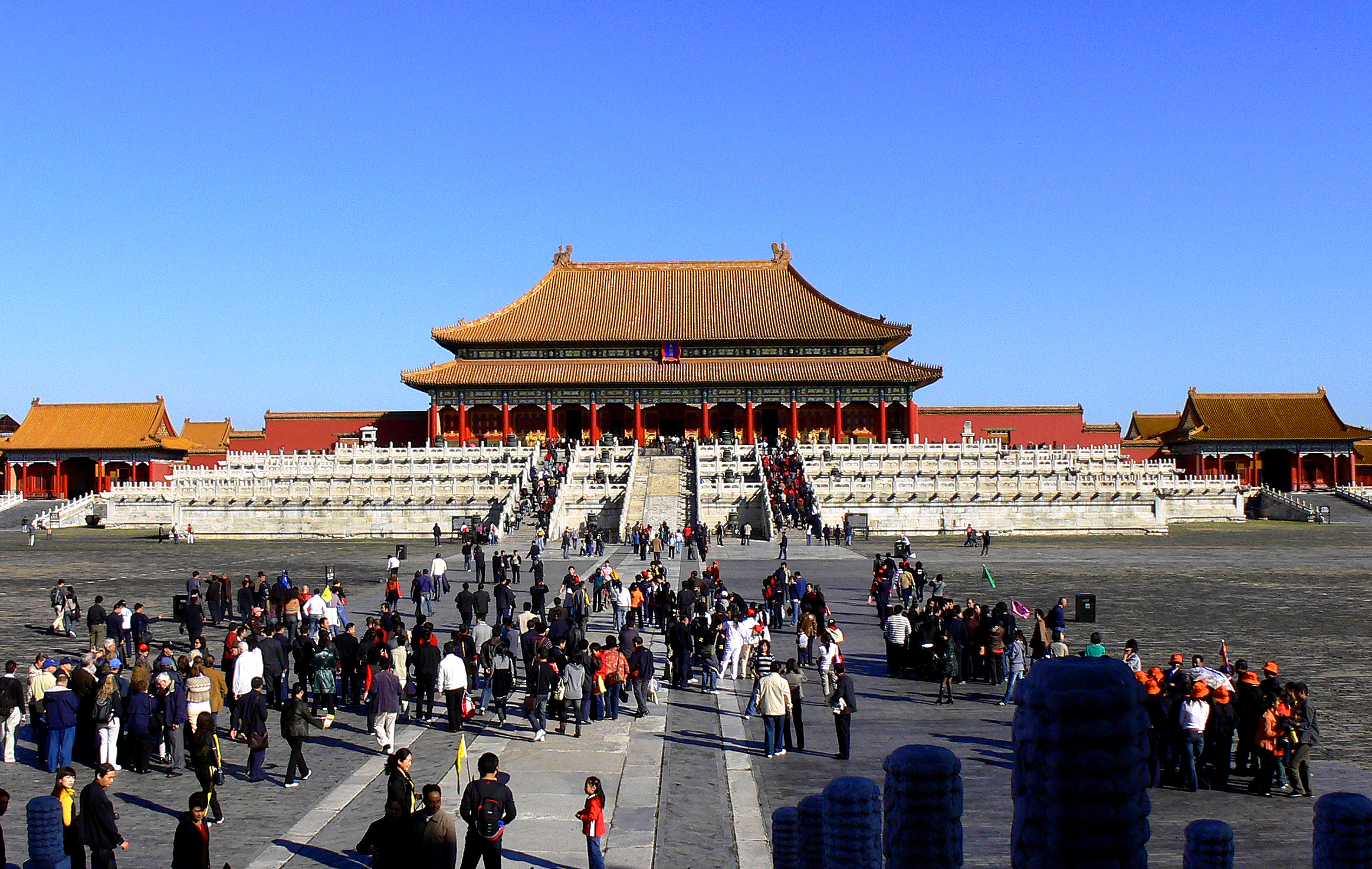 Hall of Supreme Harmony in the Forbidden City in Beijing, 2008 中文（中国大陆）: 2008年新整修北京故宫太和殿